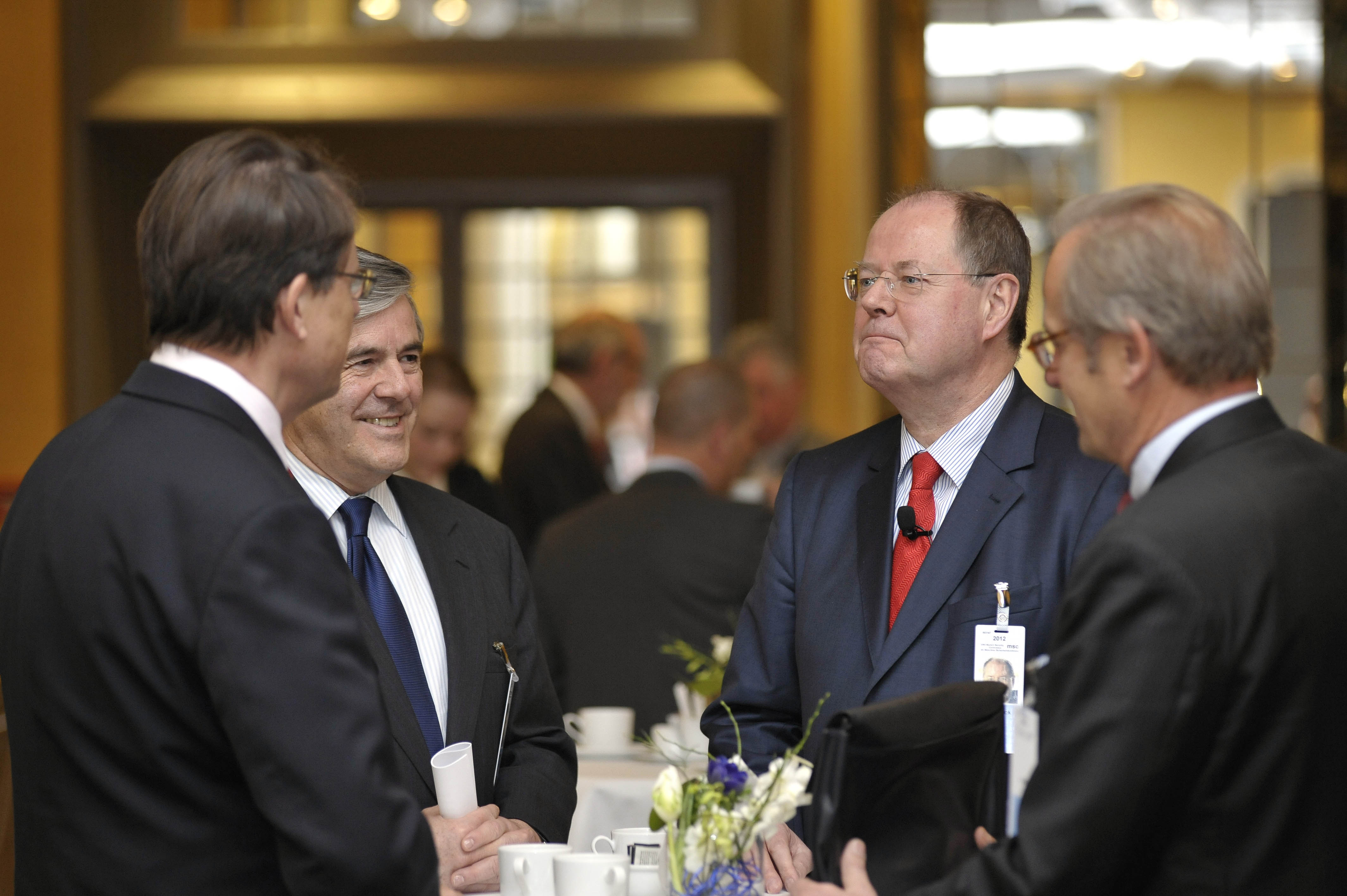 48th Munich Security Conference 2012: Peer Steinbrück (mi), SPD - Parliamentary Group, Germany, in Conversation.